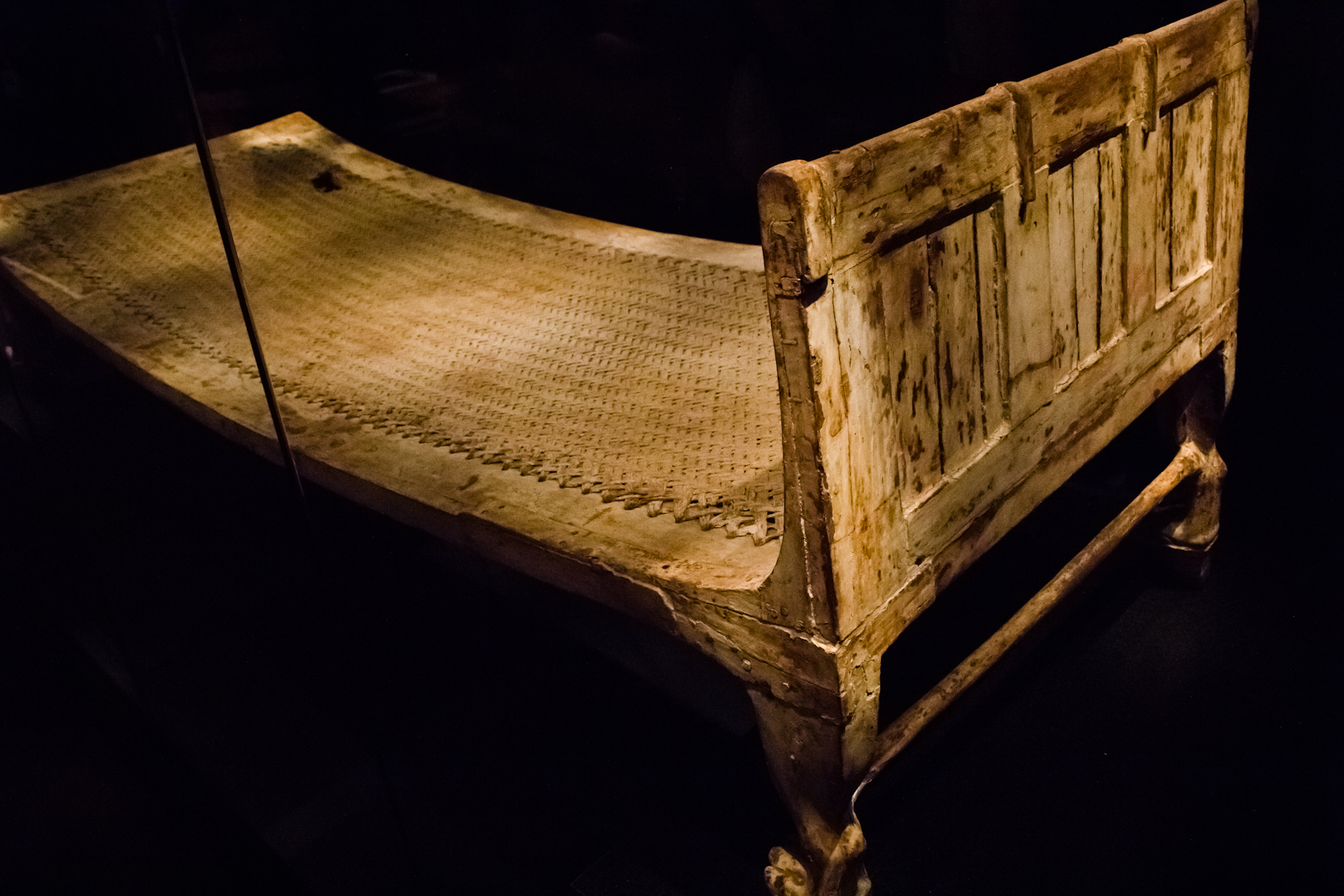 Tomb of Tutankhamun